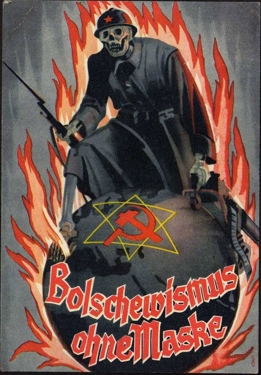 Anticommunist political propaganda poster from Fascist Germany.